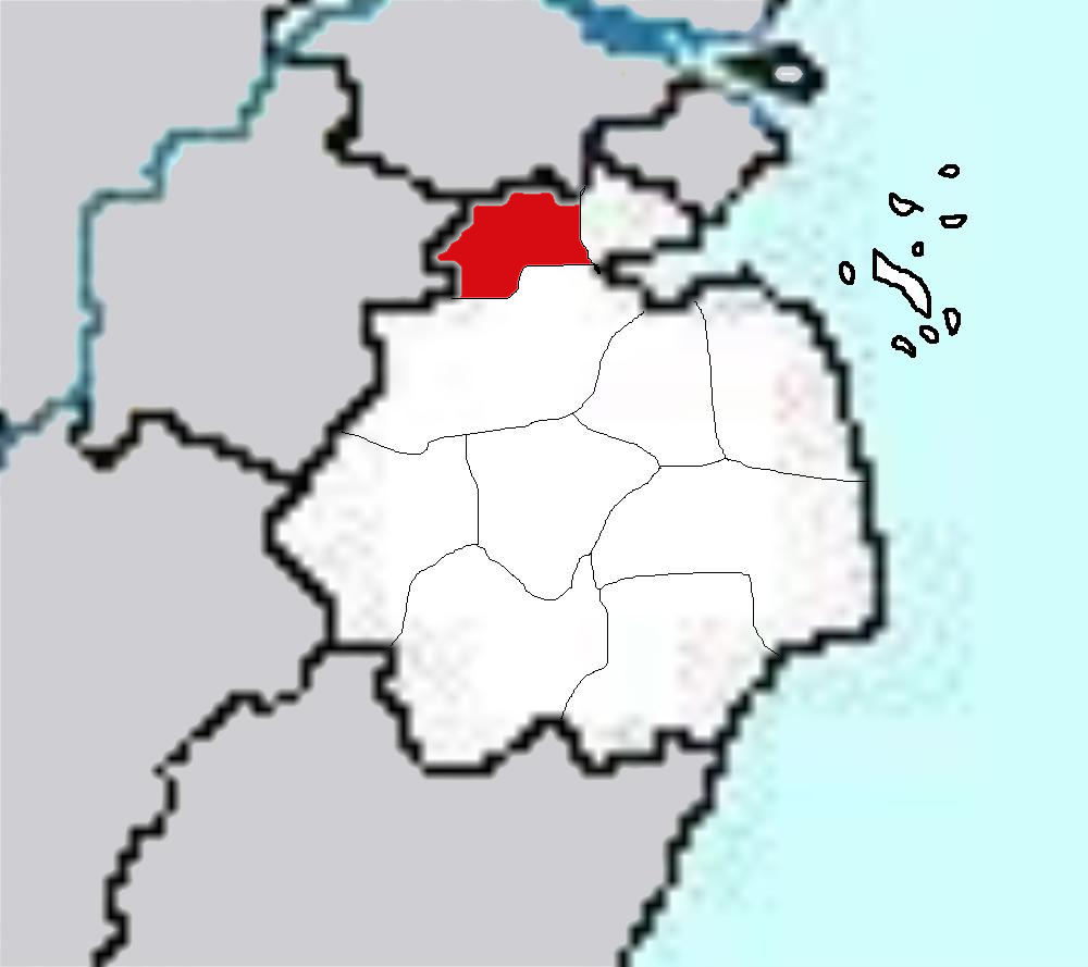 Maps of Zhejiang Province of China